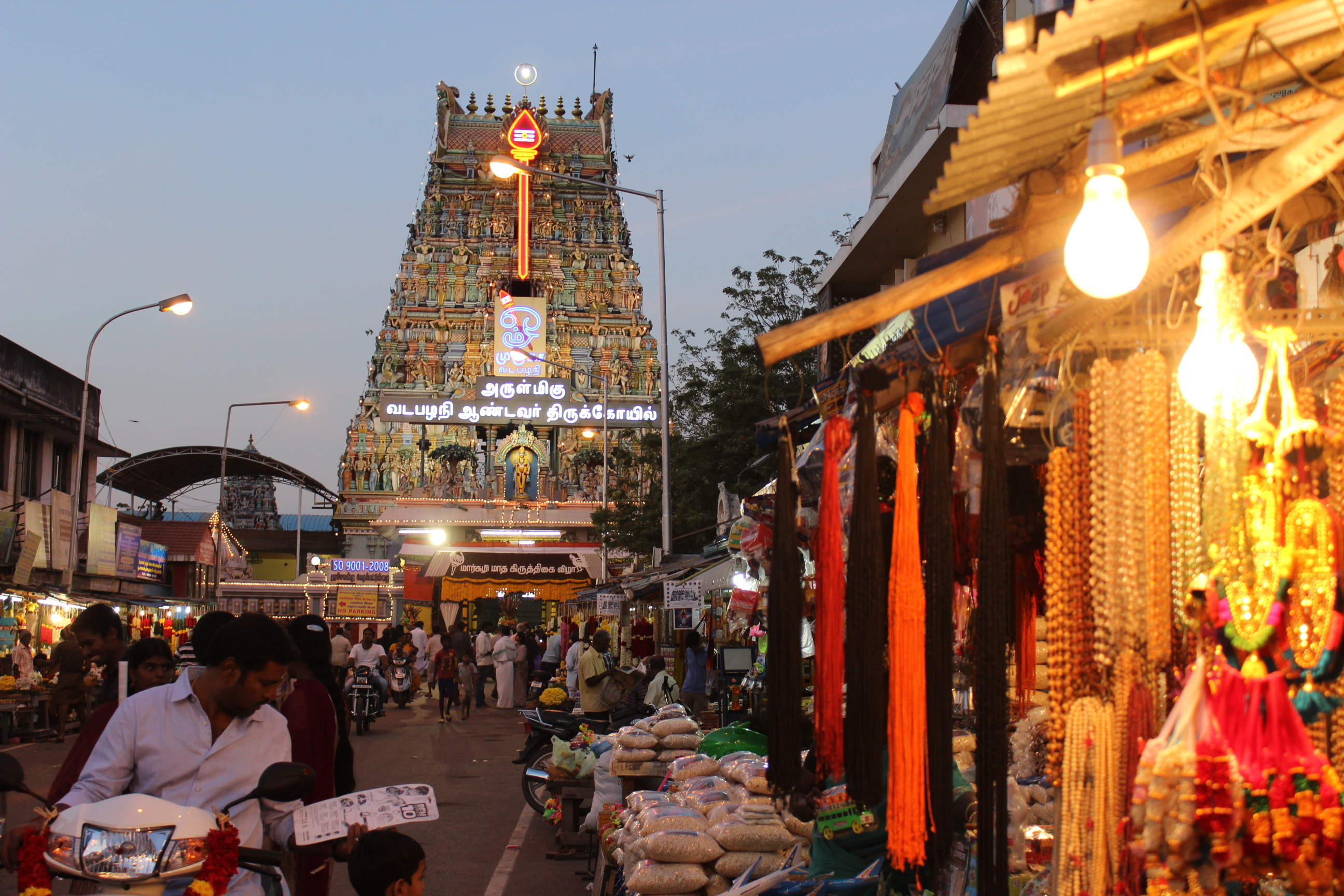 Vadapalani Andavar Temple